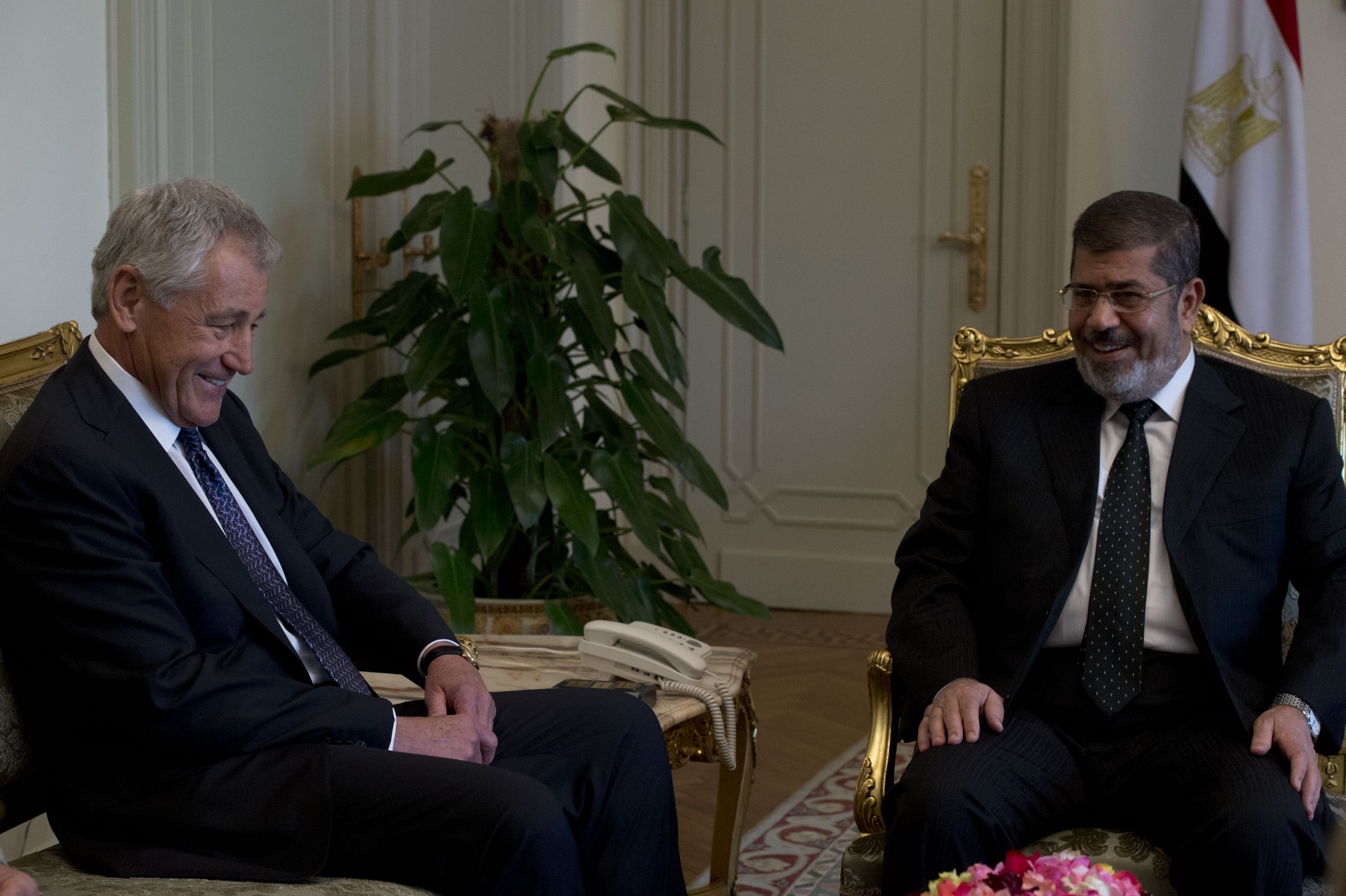 U.S. Secretary of Defense Chuck Hagel, left, meets with Egyptian President Mohamed Morsi in Cairo April 24, 2013. Egypt was Hagel's fourth stop on a six-day trip to the Middle East to meet with defense counterparts.